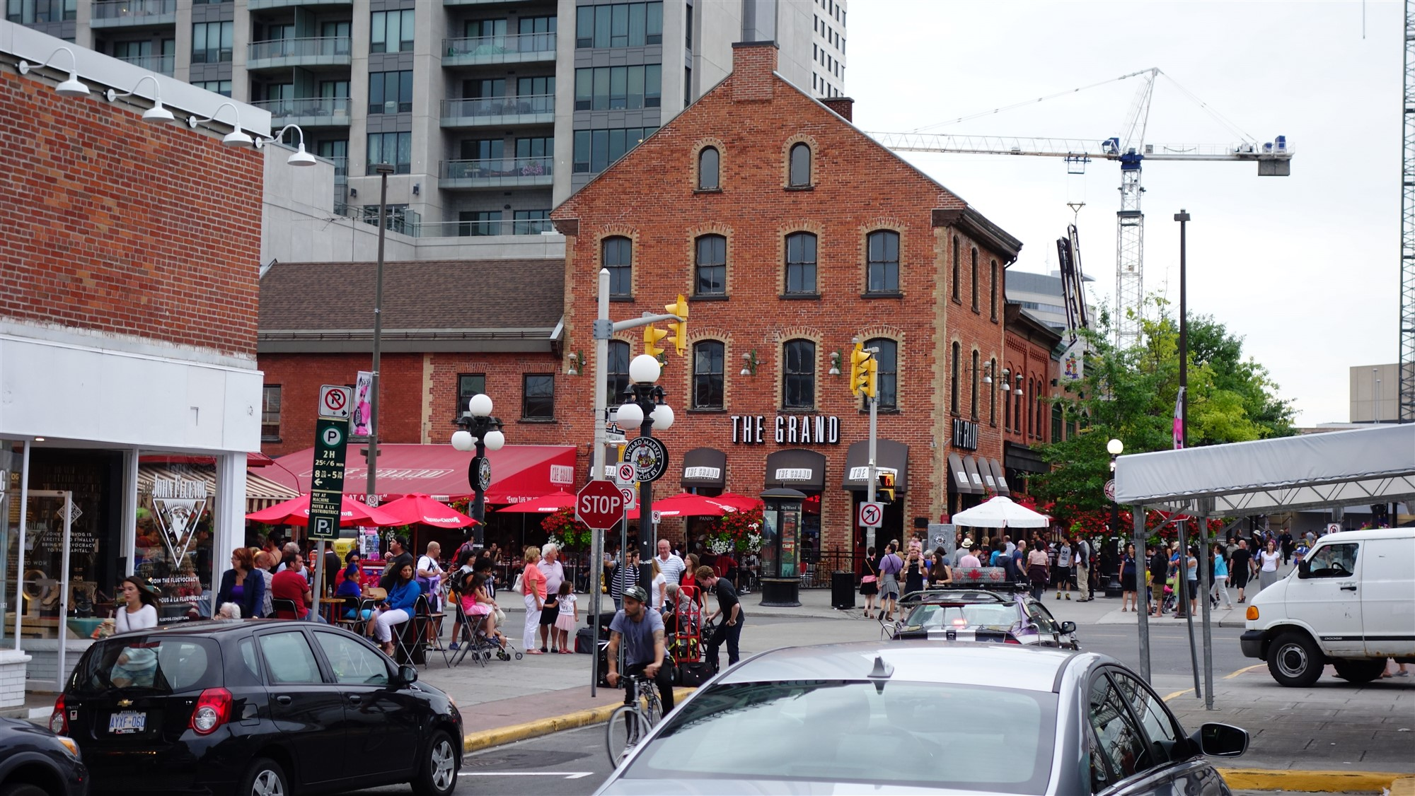 The Byward Market district in Ottawa, Ontario, Canada